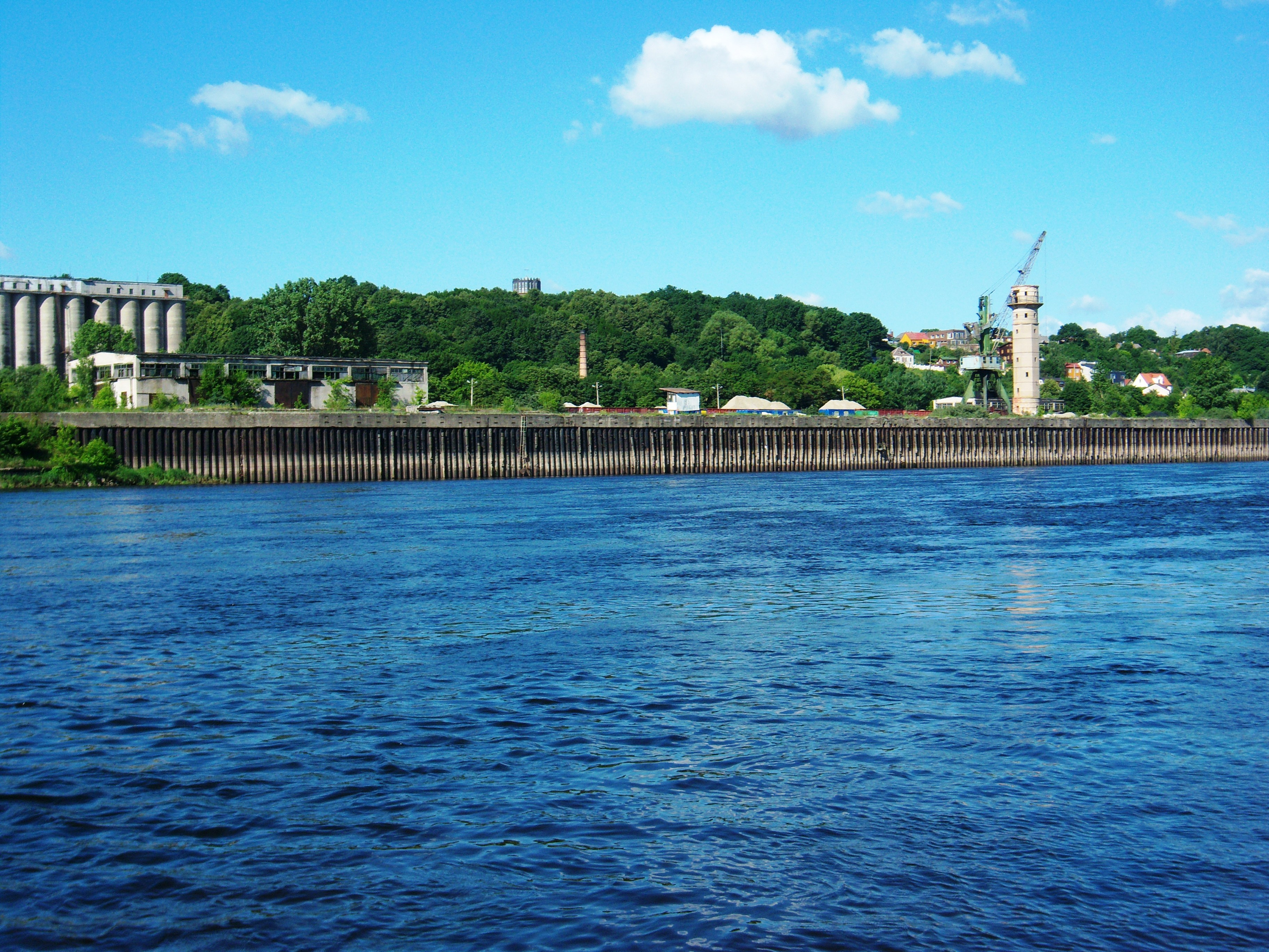 Neman River port, Kaunas, Lithuania